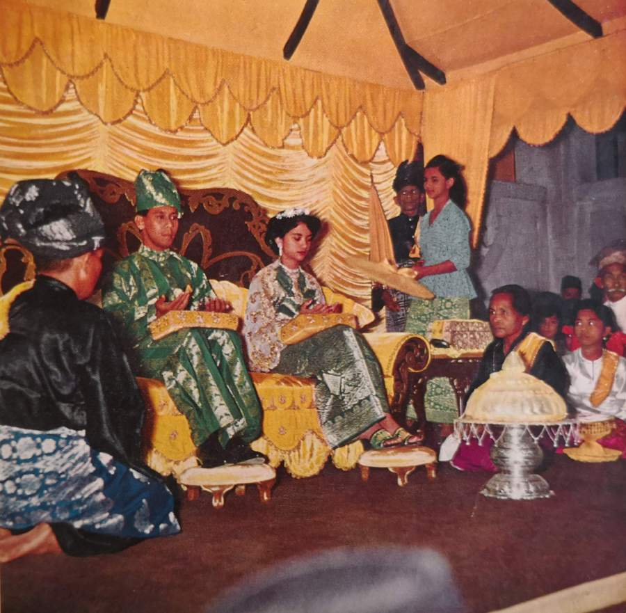 Tunku Abdul Halim and Tunku Bahiyah sit in a henna ceremony during their wedding in 1956.